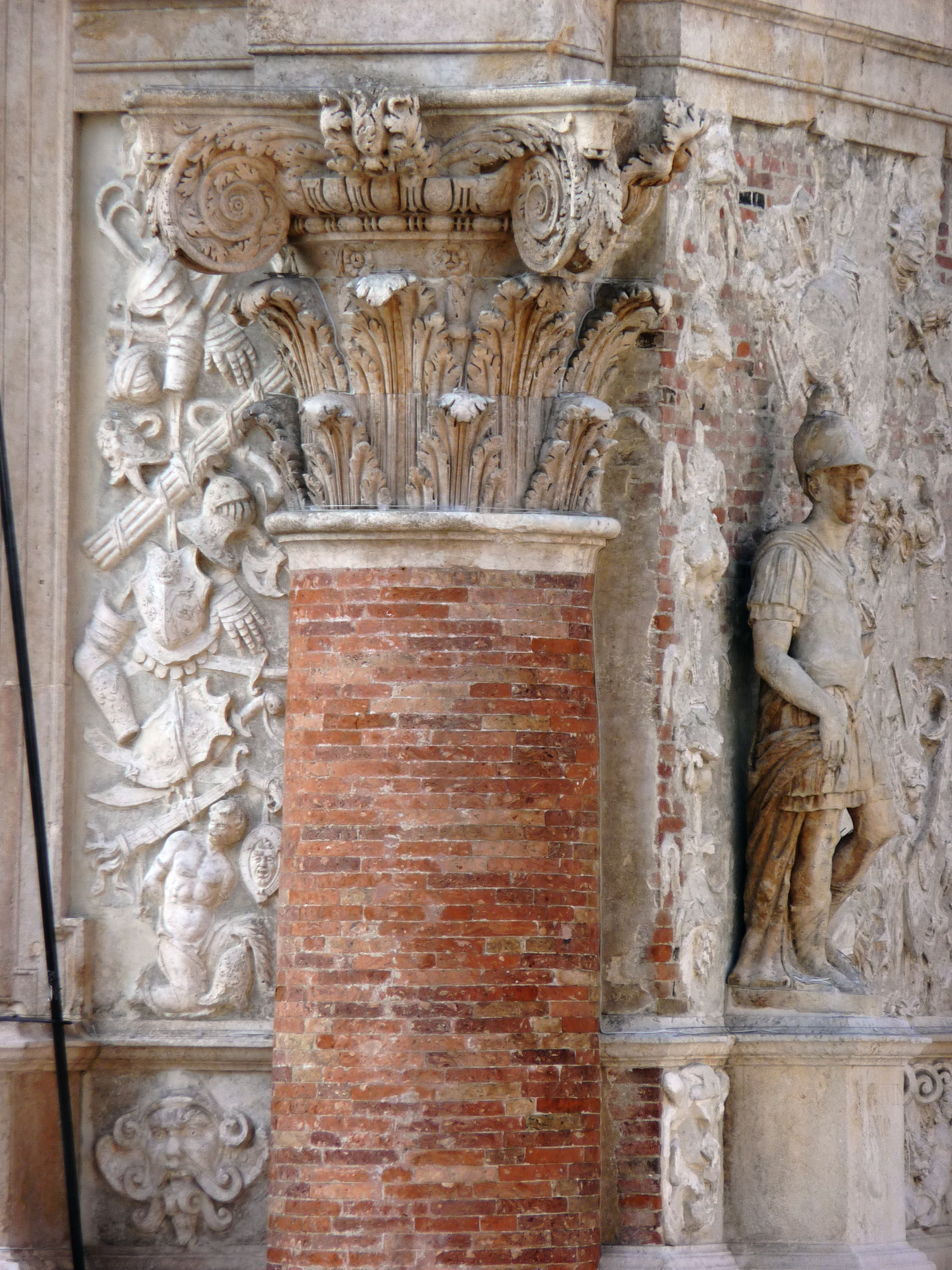 Palazzo del Capitaniato in Vicenza, by Andrea Palladio, seen from the Basilica Palladiana.